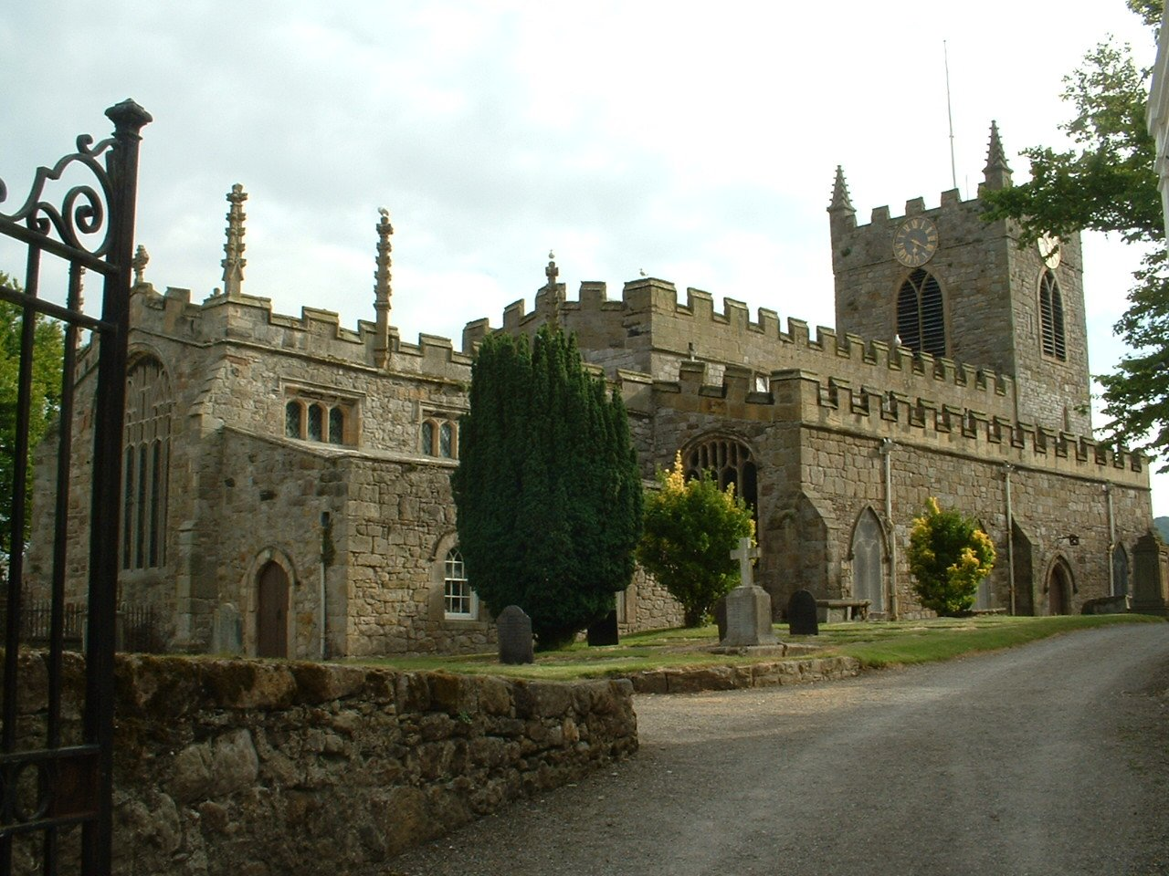 St. Mary's Church, Beaumaris. Taken by Necrothesp, 25 June 2005.